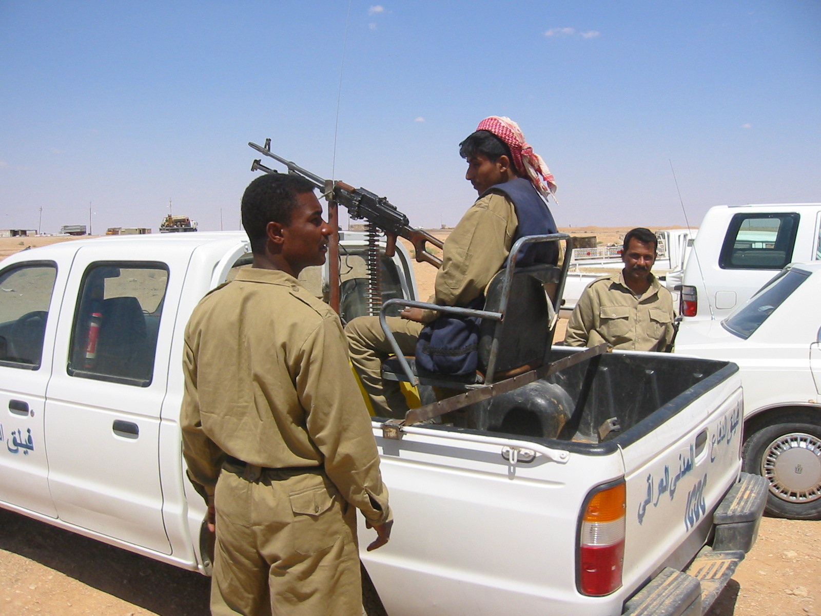 Iraqi National Guard "technical" fighting vehicle, armed with one 7.62 mm PKM machine gun, crewed by local Bedouin enlistees. Photographed in Nukhayb, Iraq.